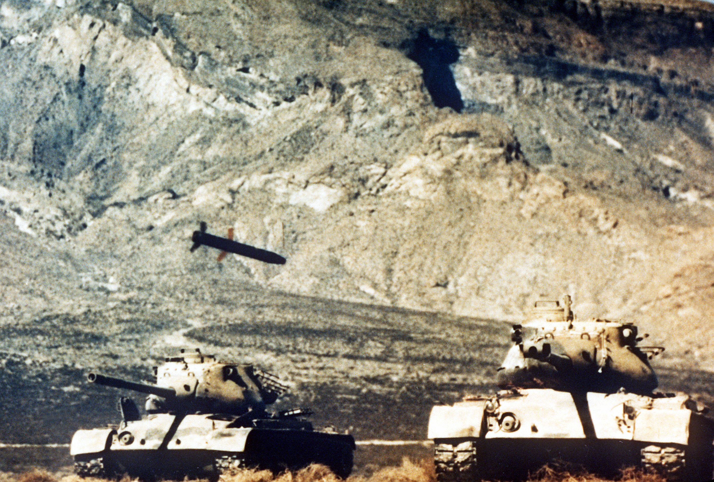 An M712 Copperhead cannon-launched laser-guided projectile nears the target, an M47 medium tank.